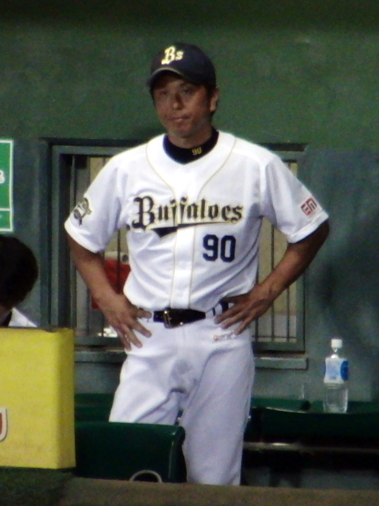 Eiji Mizuguchi, coach of the Orix Buffaloes, at Kobe Sports Park Baseball Stadium.